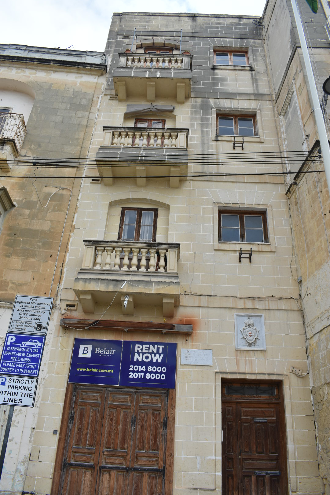 Auberge d' Allemagne This media is about Maltese cultural property with inventory number 01159.